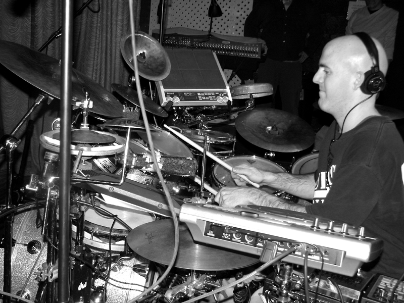 Steve Honoshowky performing at the Strasburg Theater in Strasburg, VA